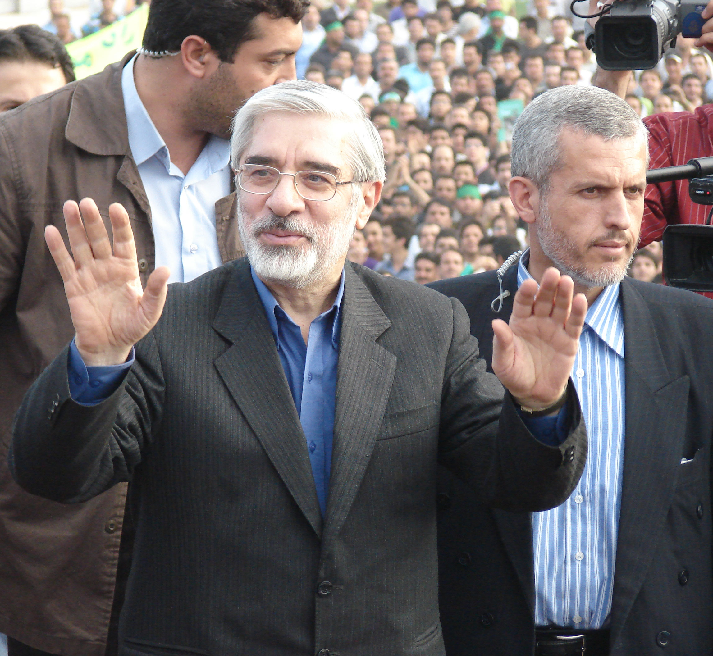 Mir Hussein Mousavi is Iranian reformist and government oposition and green movement Leader. he is in badr stadium in tehran among his supporters before iran 2009 presidental election.